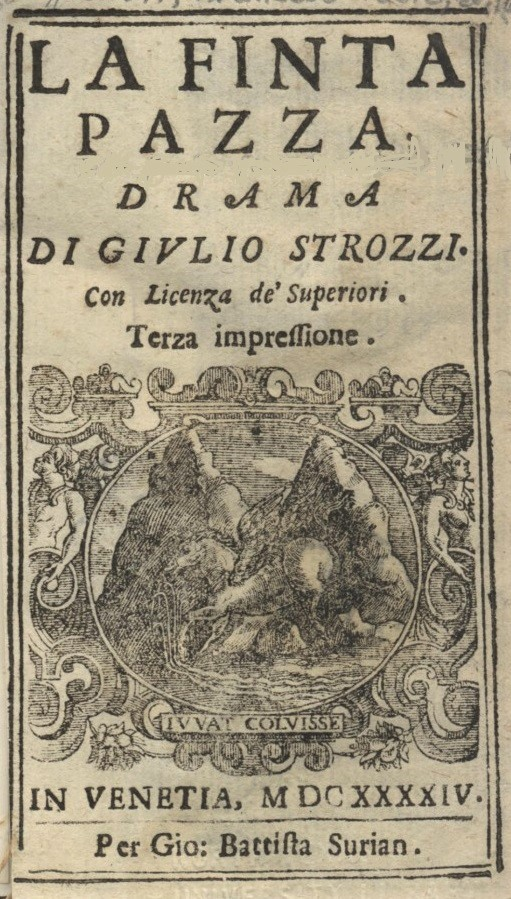 Title page of the libretto for Francesco Sacrati's opera La finta pazza. The opera premiered in Venice in 1641. This is the third printing of the libretto (Venice, 1644)